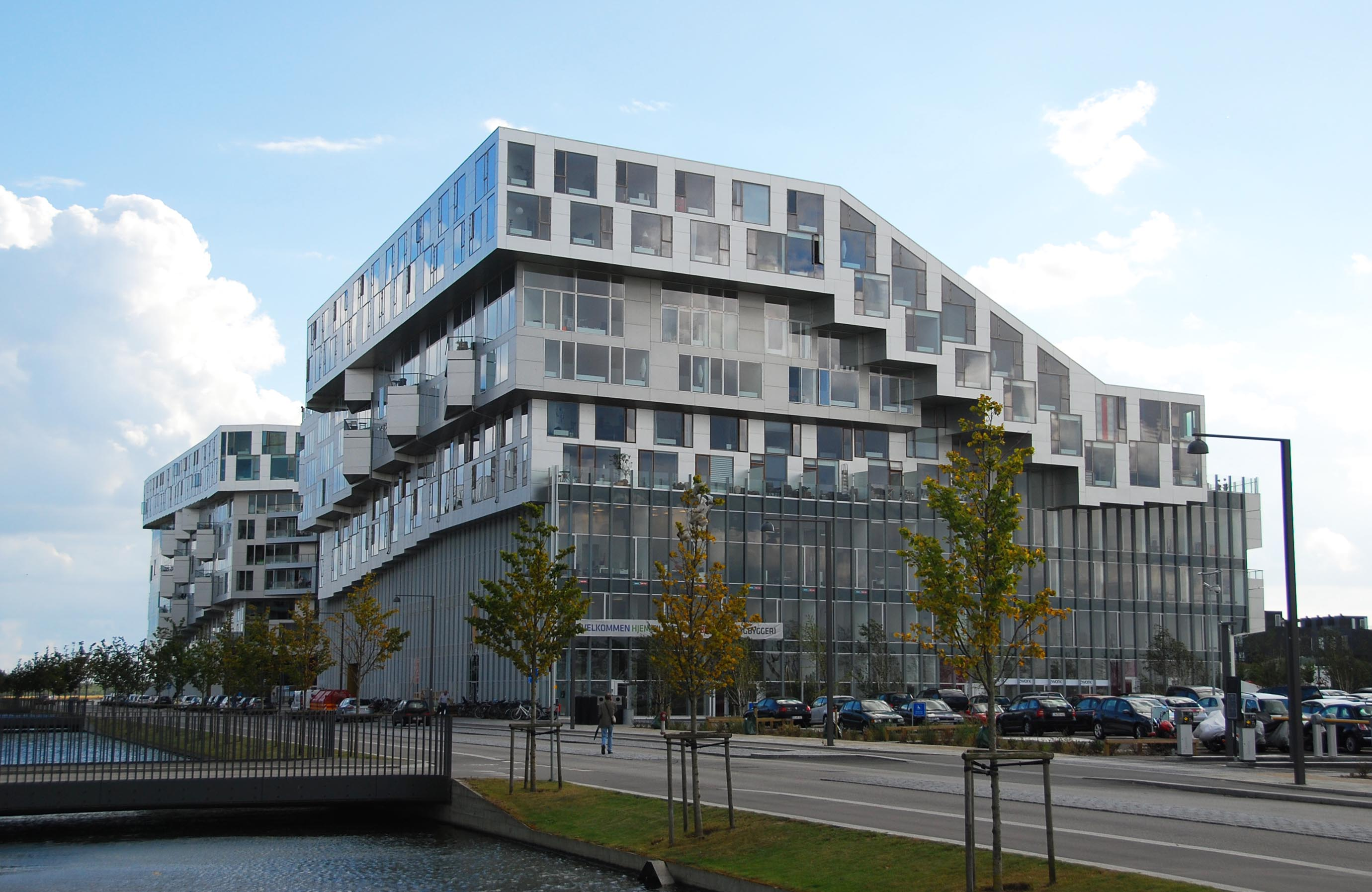 8 House by Bjarke Ingels Group in Ørestad, Copenhagen, Denmark Housing within the Urban renewal area around Orestad and the new metro line